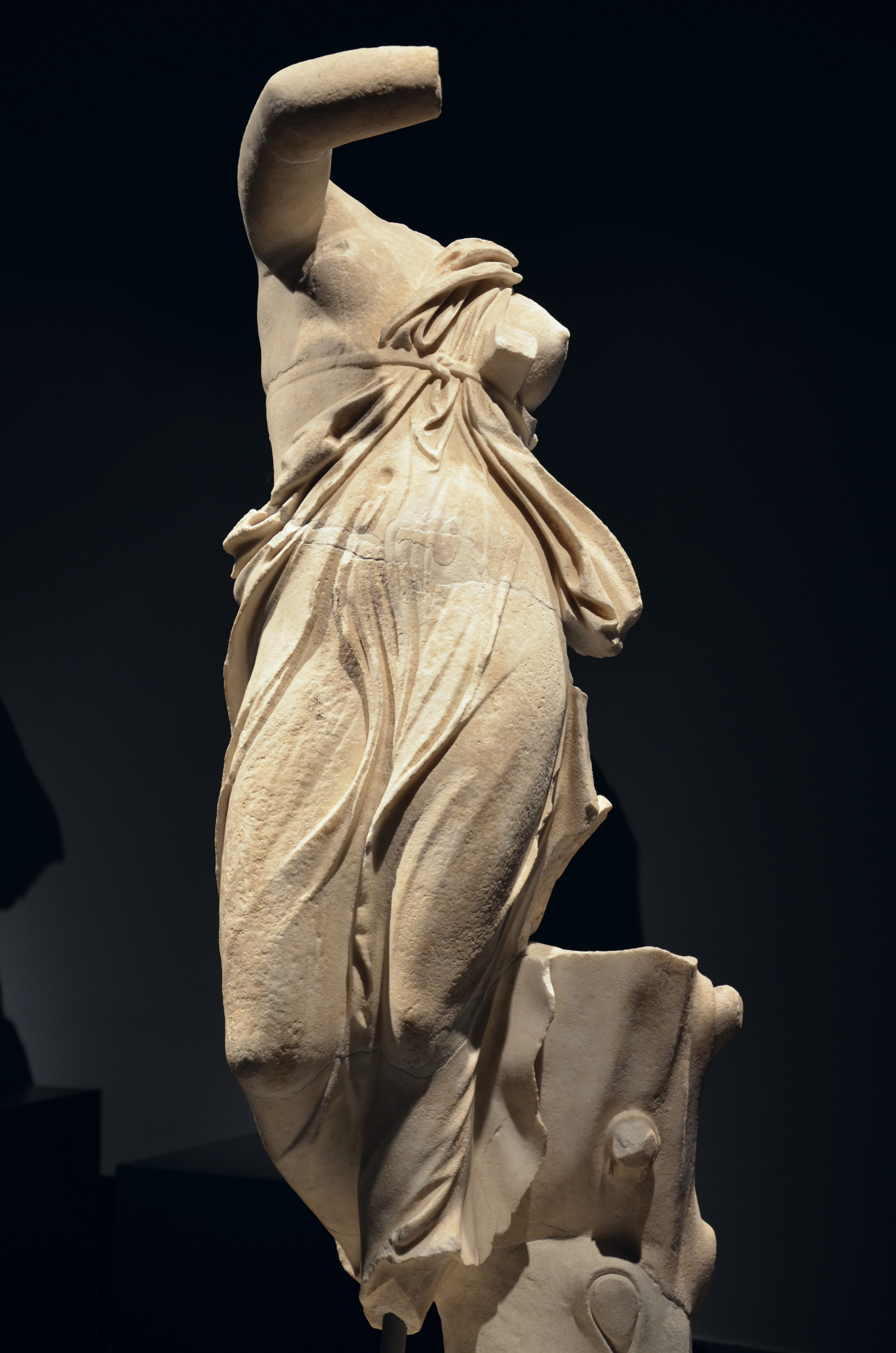 Dancing female figure, thought to be a portrait of Praxilla of Sikyon (a Greek lyric poet), from the portico of the Triclinium of the Three Exedras at Hadrian's Villa, 117 - 138 AD, Palazzo Massimo alle Terme, Rome